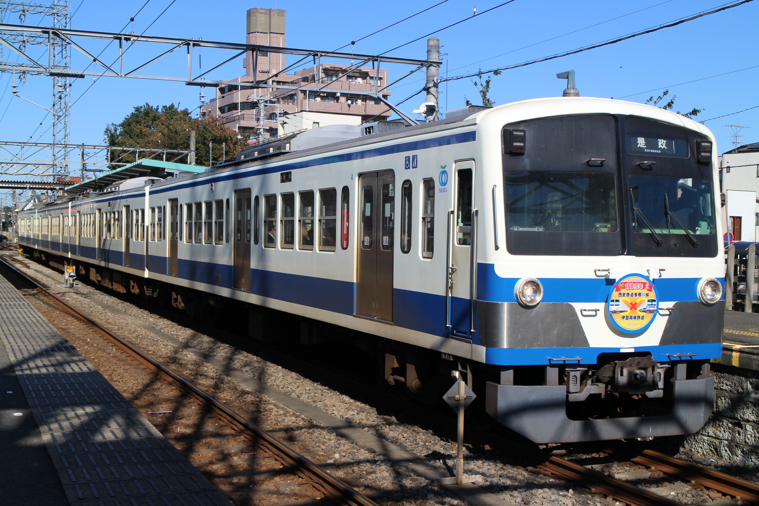 Seibu Railway 101 series EMU set 1249 in special Izuhakone Railway-style livery at Tama Station in Tokyo, Japan